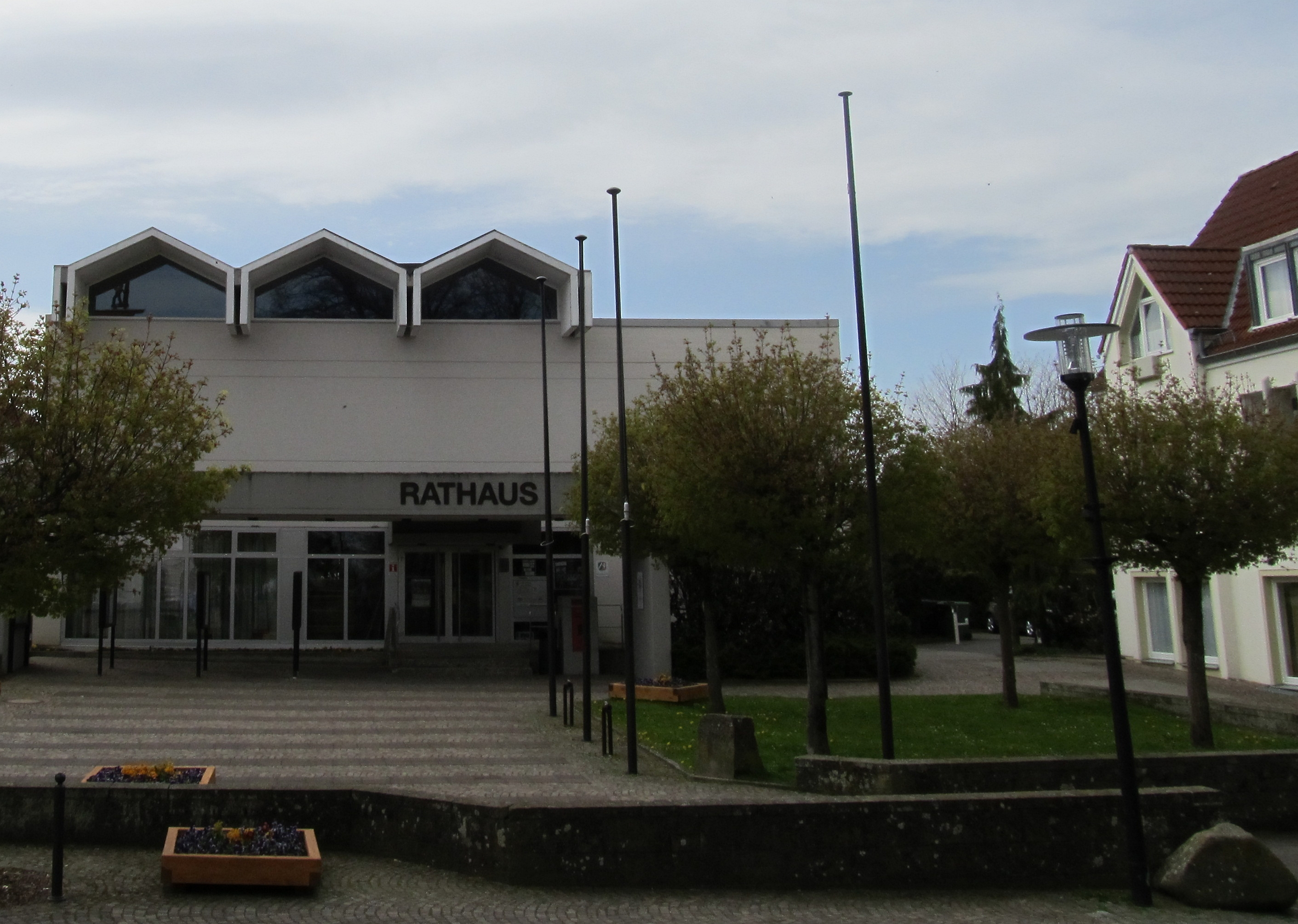 Rathaus, Rüthen (Germany)